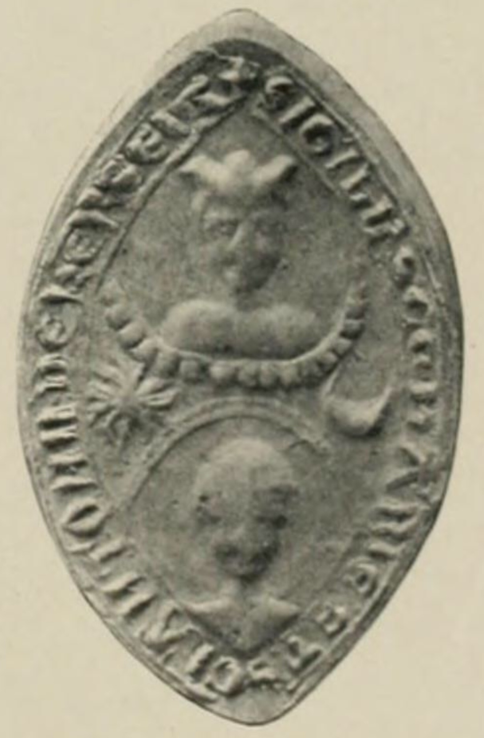 The twelfth-century seal of Kersey Priory, which is a pointed oval, bearing a bust of the Blessed Virgin, crowned, in clouds; below is the head of St. Anthony; between them is a sun and crescent moon. It has the legend round the edge of ‘SIGILL' SCE MARIE ET SCI ANTONII DE KERSEIA’